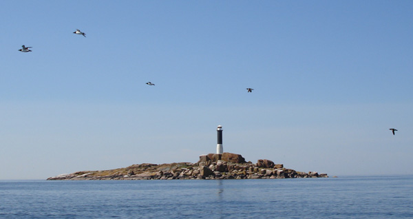 The island Bonden with its lighthouse, Västerbottens län, Sweden.